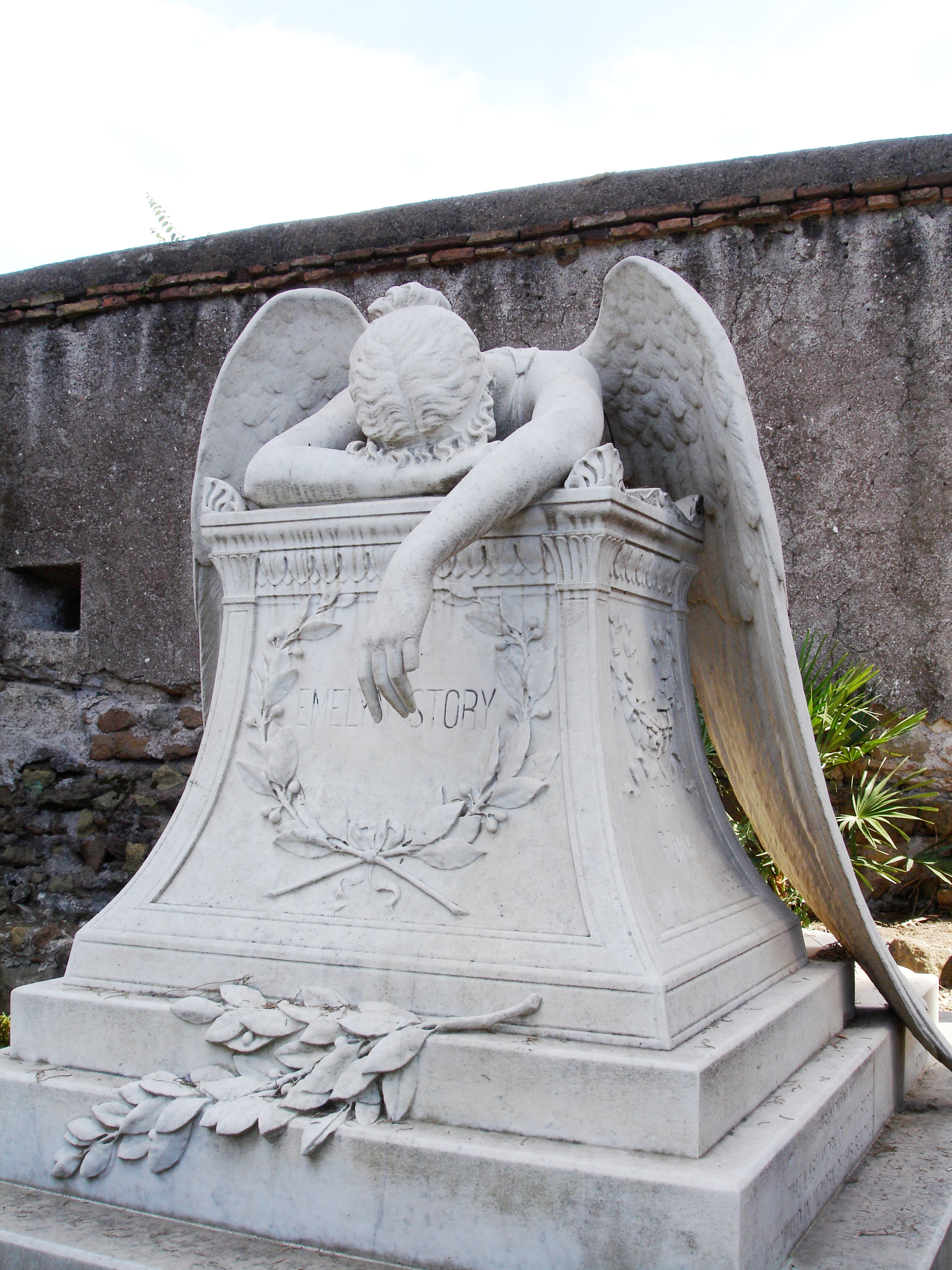 Angel of grief, a 1894 sculpture by William Wetmore Story which serves as the grave stone of the artist and his wife Emelyn at the Protestant Cemetery, Rome.